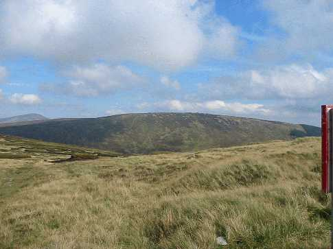 Conavalla, Wicklow Mountains, Ireland. View from the "table track" on top of Table Mountain